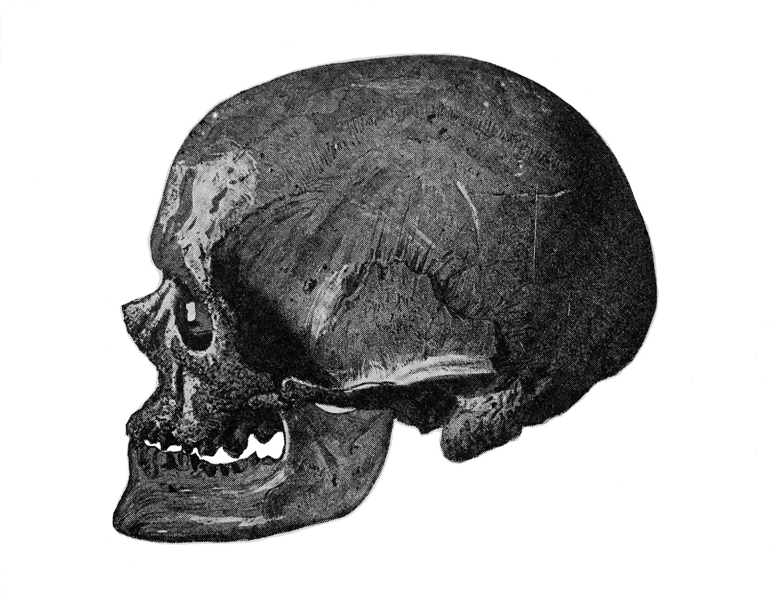 Side view of the skull of Old man of Cros-Magnon. Wellcome Images Keywords: Prehistory; skulls